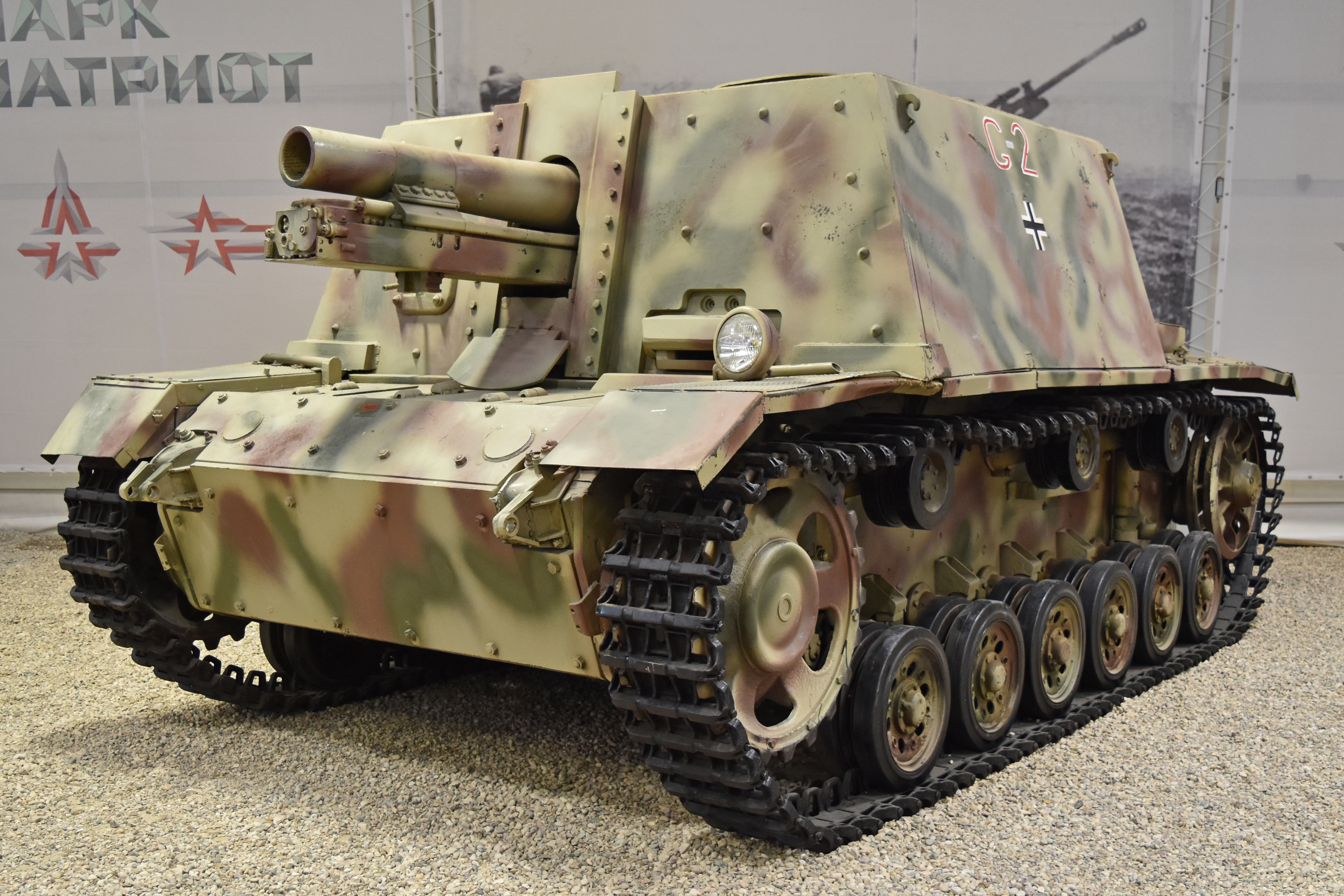 German WW2 era Heavy Assault Gun Manufacturer:- Alkett Built:- 1942 Total production:- 24 Main Armament:- 150mm slG 33/1 Infantry gun Built by mounting the slG 33 infantry gun on to a StuG III chassis, only 24 slG 33B were produced and were intended as heavy infantry. They saw action on the Eastern Front where this sole-surviving example was captured by Soviet troops. Repainted in a period colour scheme, it is now on display in Hall 9 of the Patriot Museum Complex. Park Patriot, Kubinka, Moscow Oblast, Russia. 25th August 2017